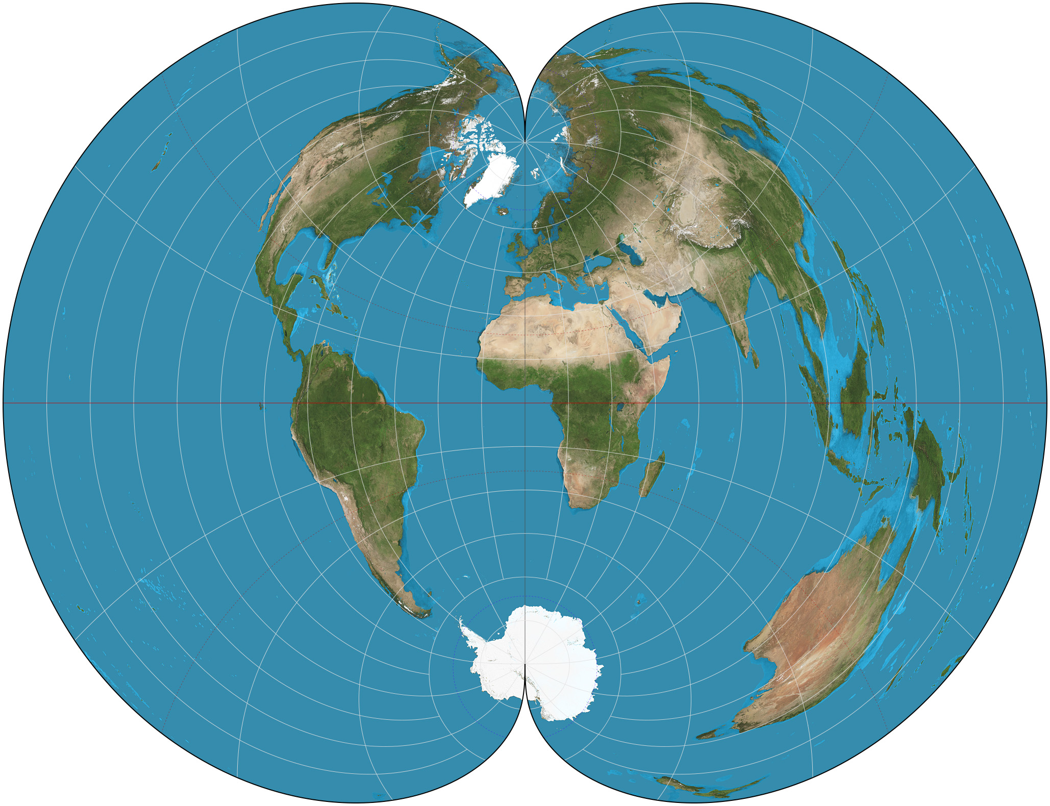 The world on American polyconic projection. 15° graticule. Imagery is a derivative of NASA’s Blue Marble summer month composite with oceans lightened to enhance legibility and contrast. Image created with the Geocart map projection software.